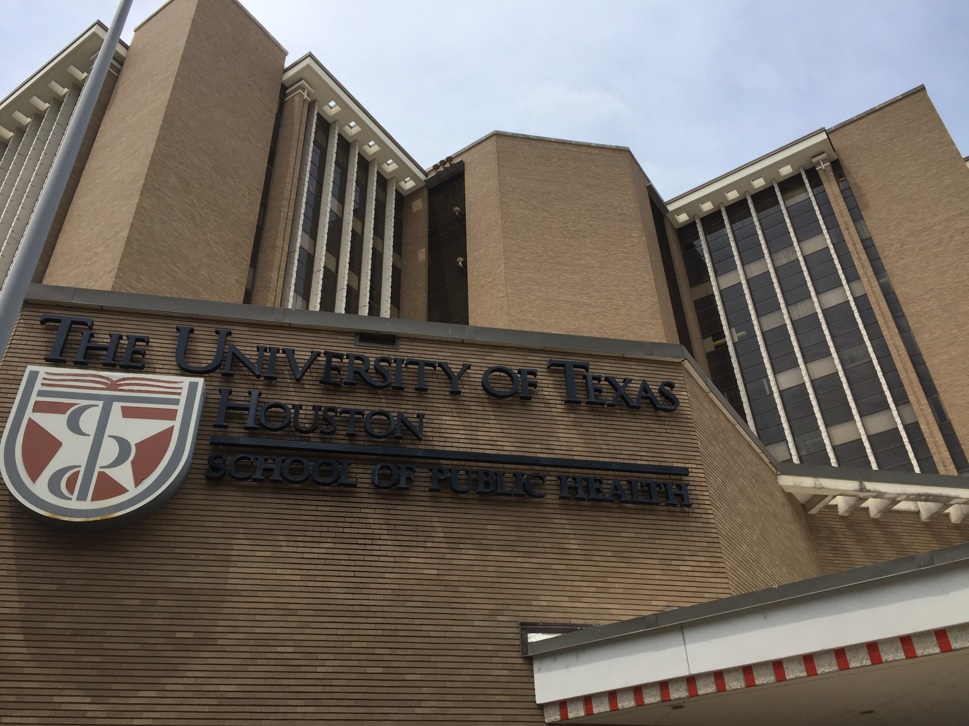 UT School of Public Health at the University of Texas Health Science Center at Houston in 2018